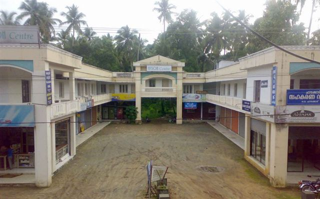 Hyson Center , Sunena nagar thozhiyoor